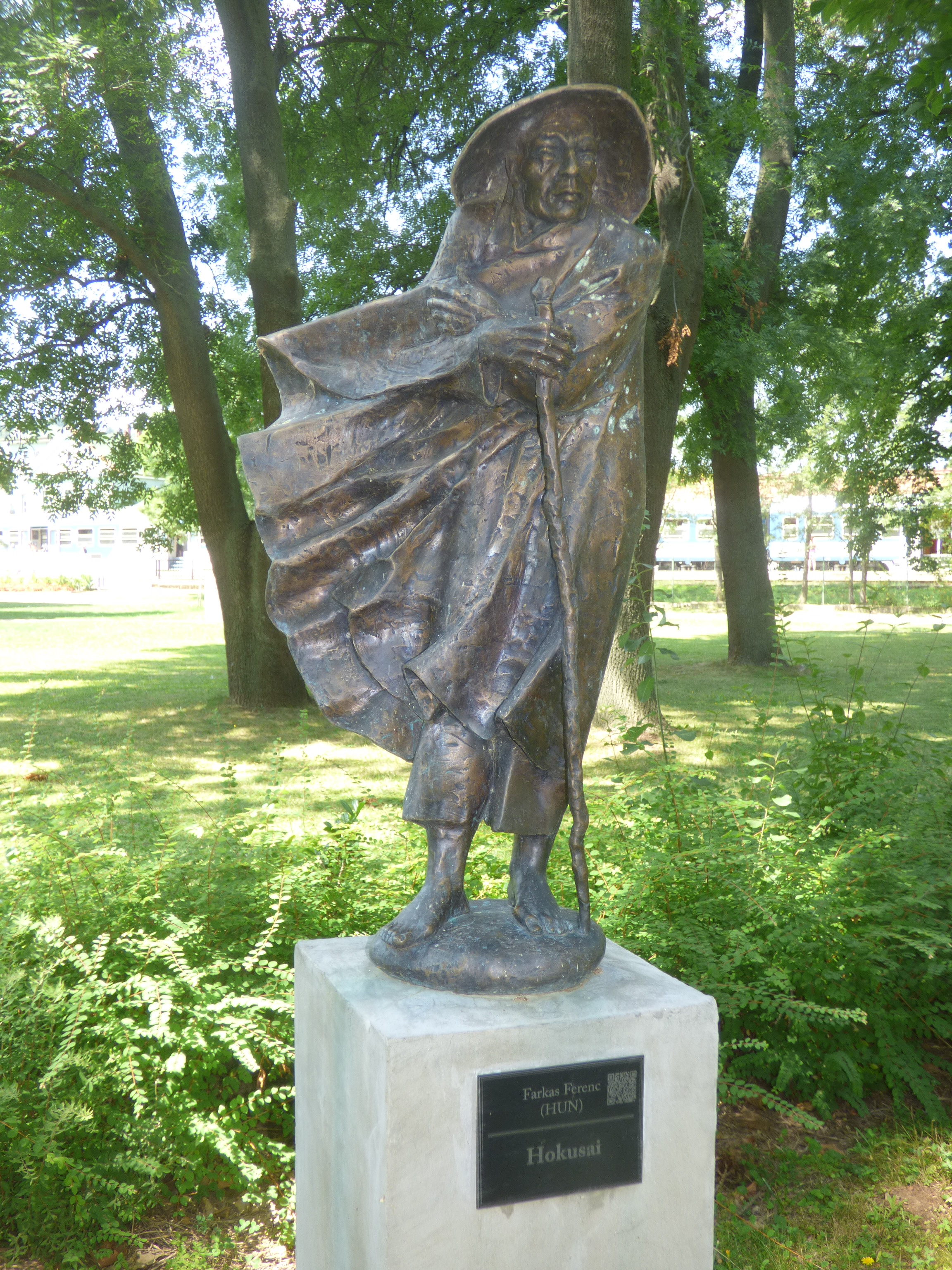 Farkas Ferenc Hokusai című szobra a balatonalmádi szoborparkban